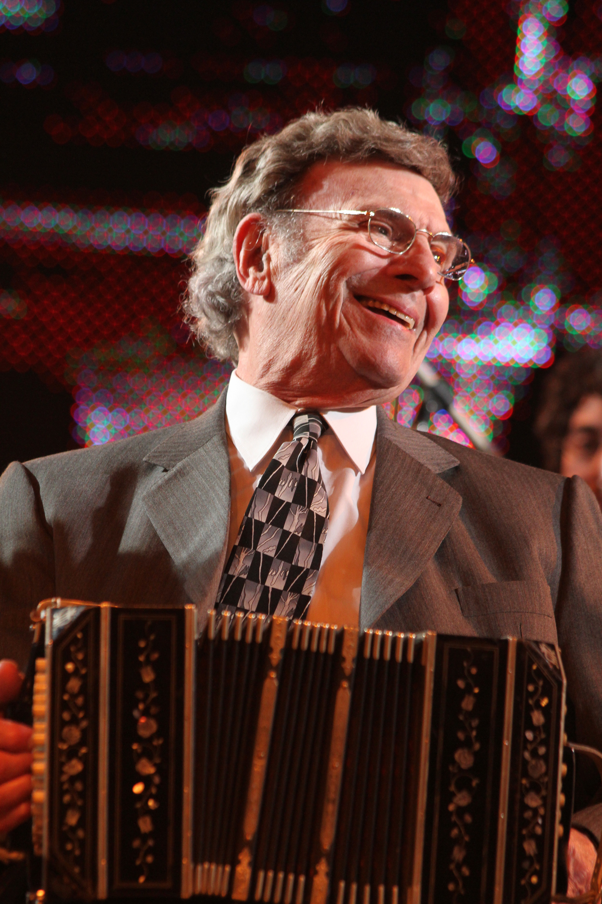 Argentine bandoneonist Leopoldo Federico performs in the 2011 Buenos Aires Tango Festival. Photo: Estrella Herrera.